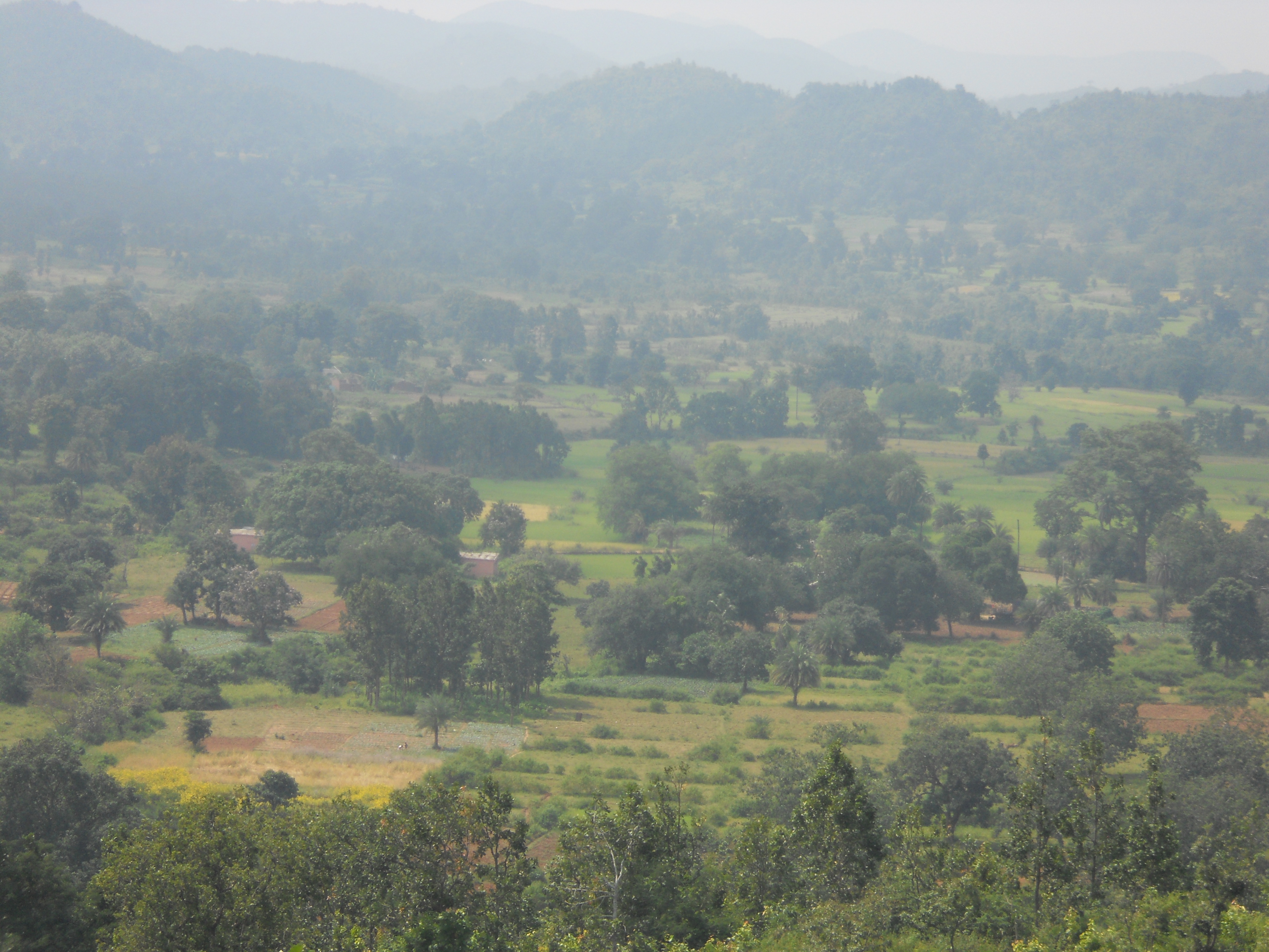 silence valley of Daringbari, Orissa